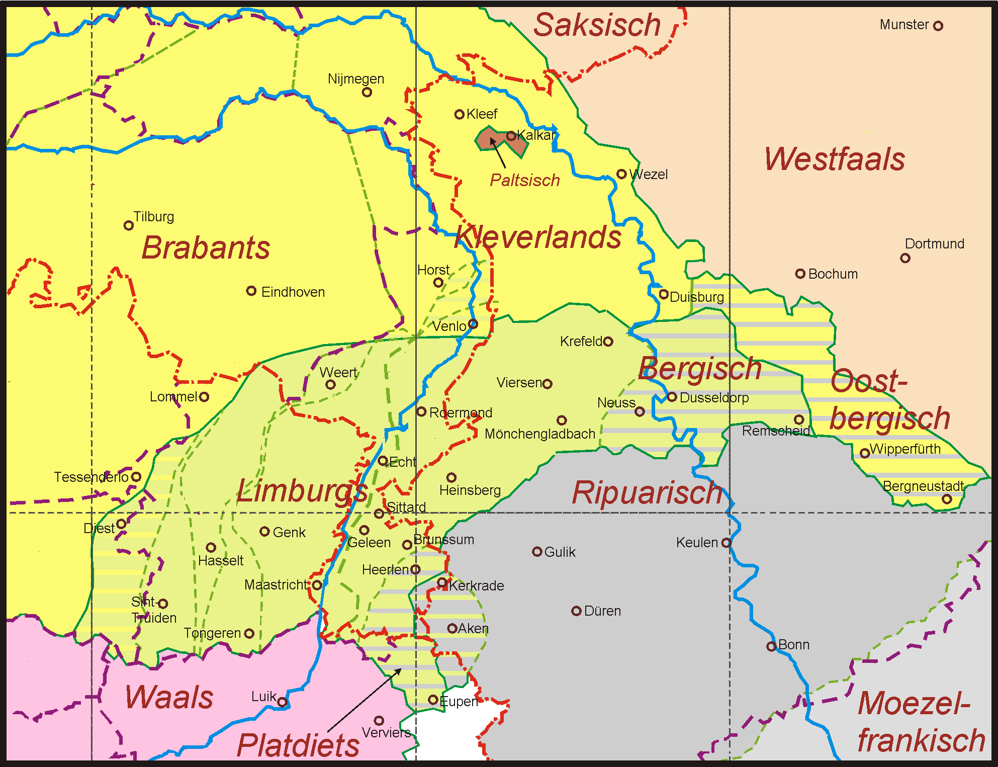 Languages of Meuse-Rhenish area including Limburgish. Dutch version.